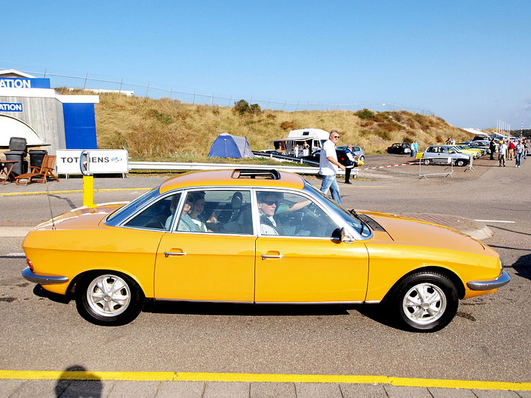 Photographed at the Nationaal Oldtimer Festival Zandvoort 2009, The Netherlands. OLYMPUS DIGITAL CAMERA